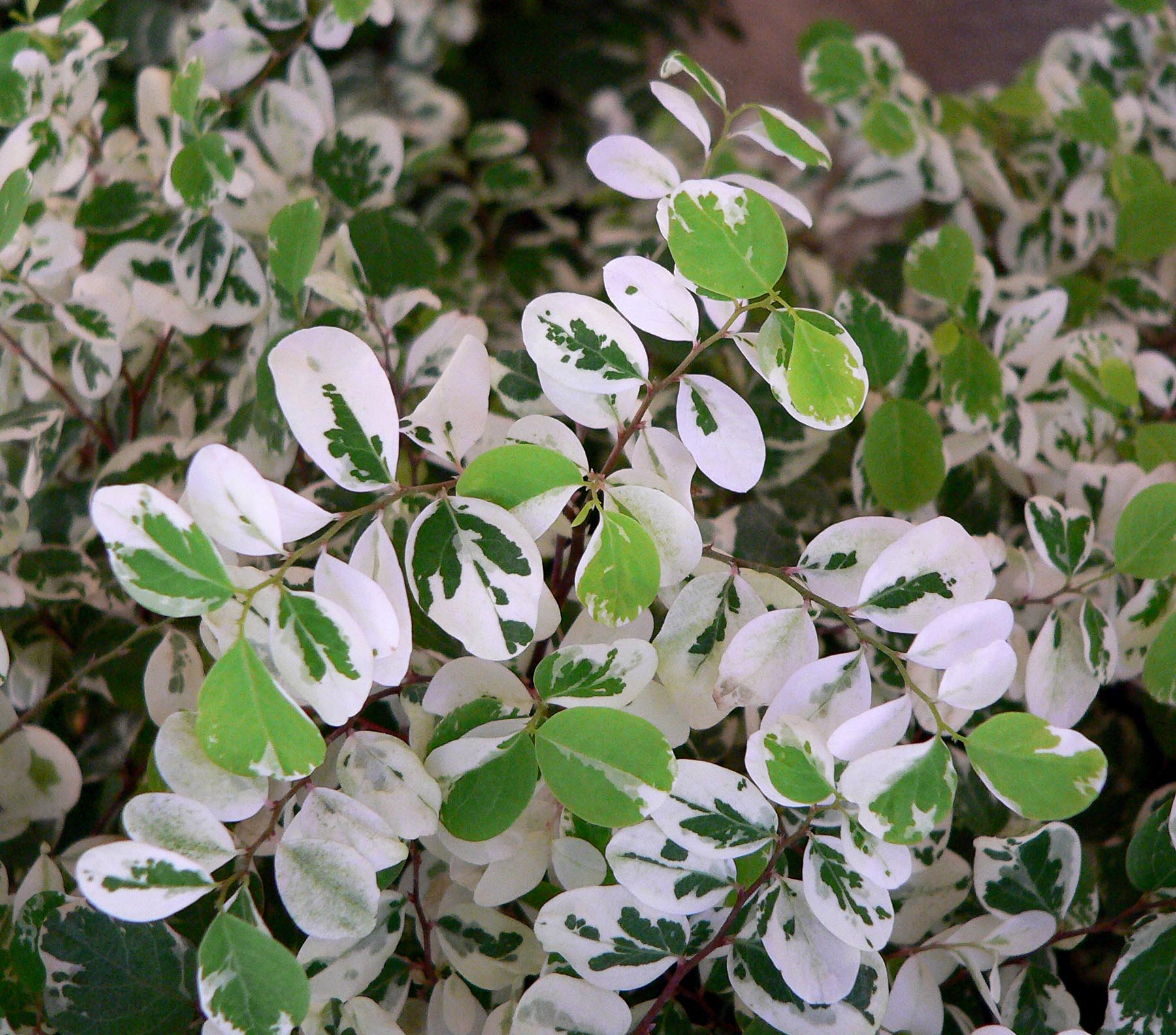 Photo of Breynia disticha 'Minima' at Balboa Park